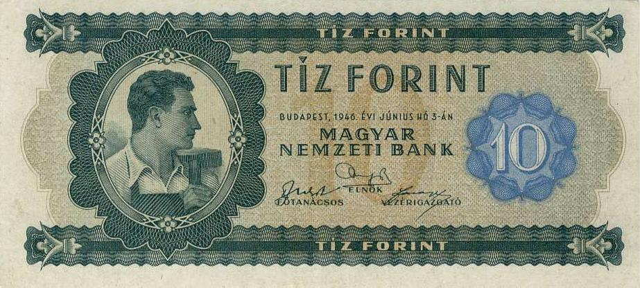 10 Hungarian forint (1946) - obverse